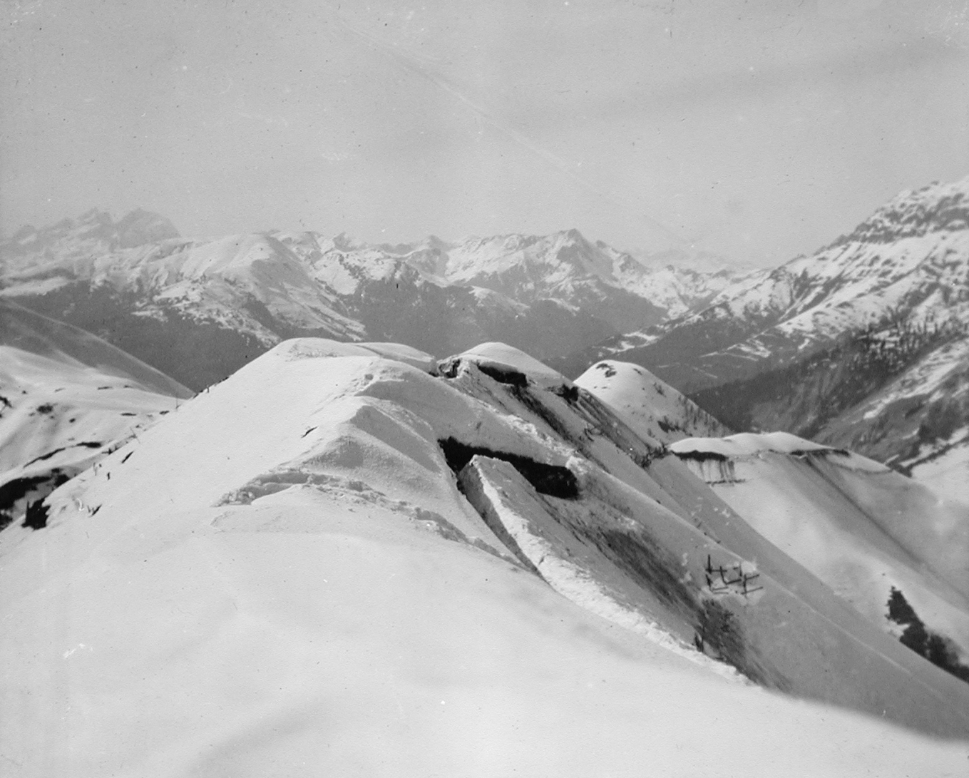 World War 1 - Italian Army battery on the summit of Monte Zermula